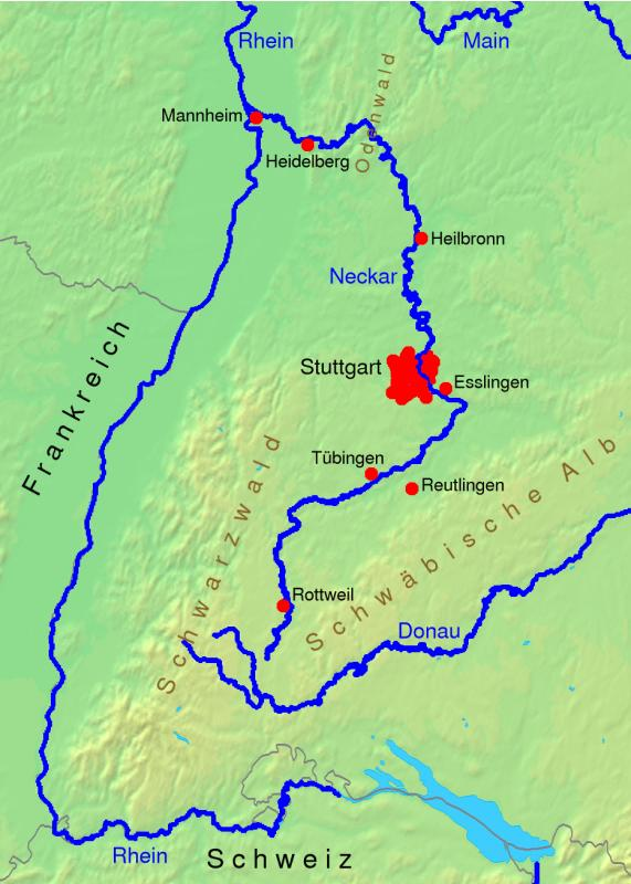 Situation and process of the Neckars